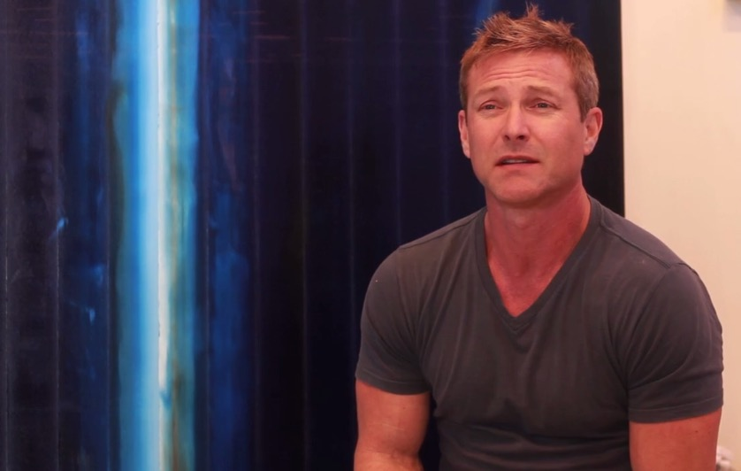 Todd WILLIAMSON, Screen shot 05 Aug 2016 in front of No Say At All (60x60in), Oil on canvas (2013)